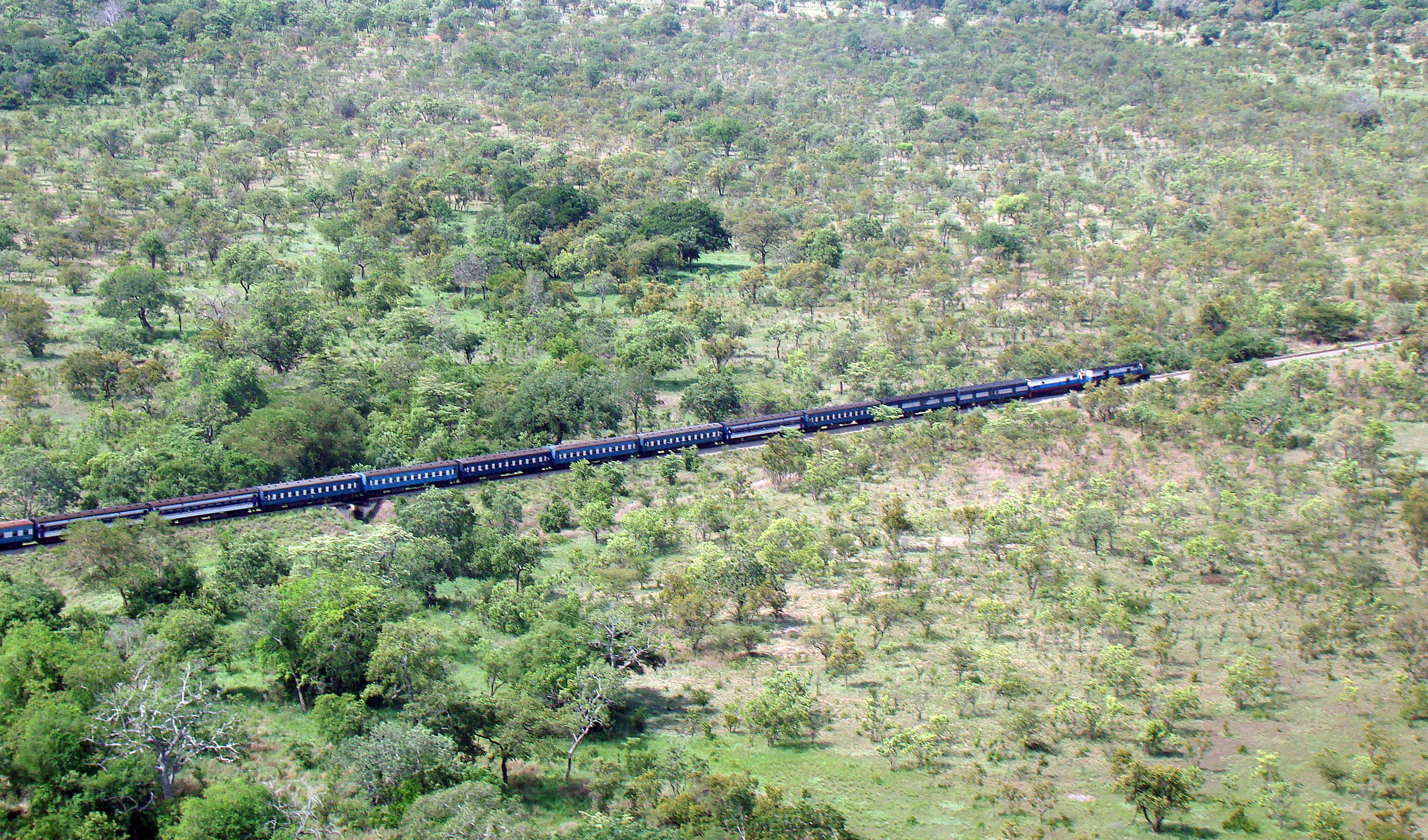 Central Tanzania, Selous Game Reserve. TAZARA railline, Selous.